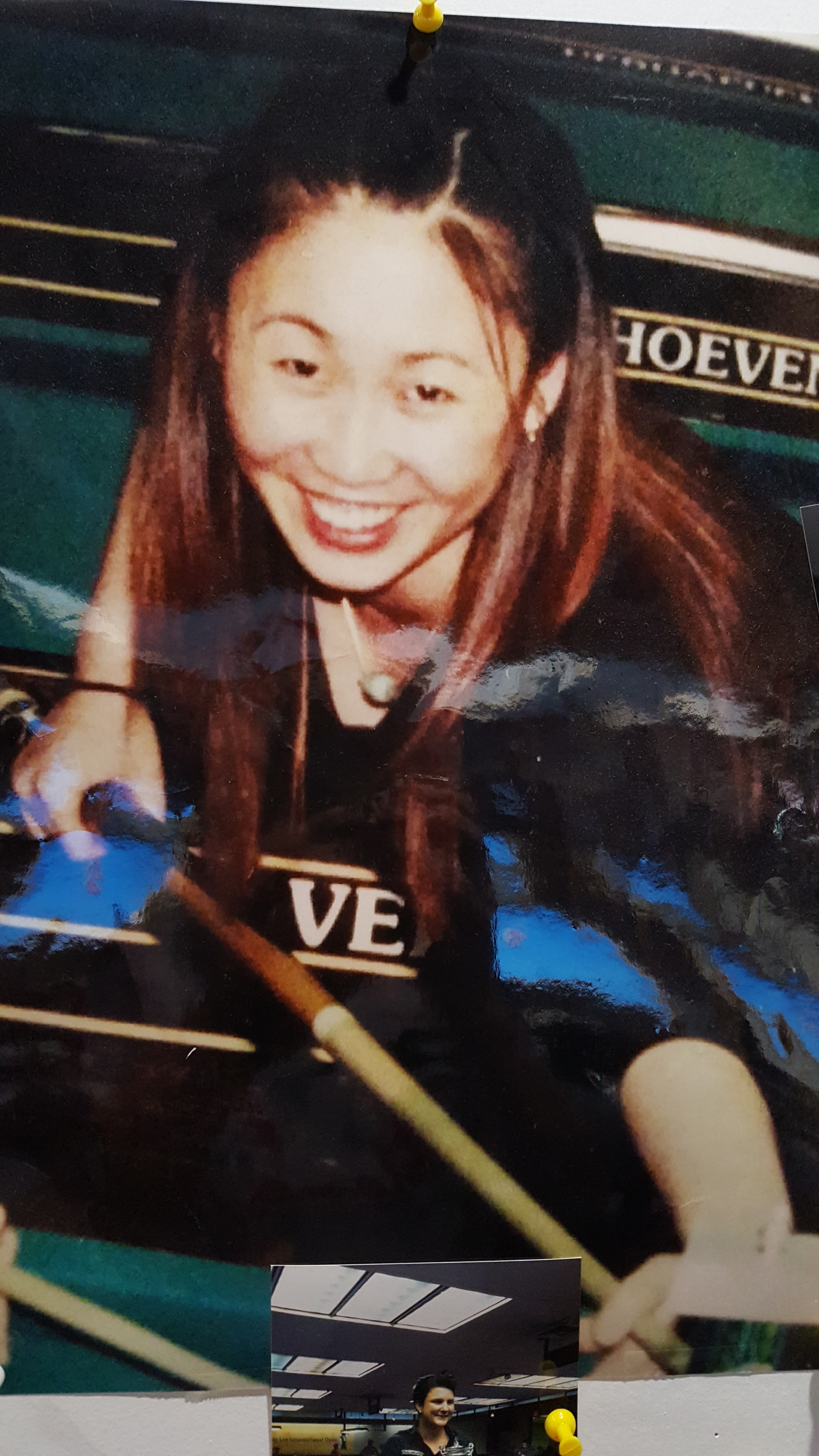 US-Carom billiards player Jennifer Shim. Picture taken from the bulletin board at the Carom Café, NYC. With courtesy of Michael Kang, owner of Carom Café